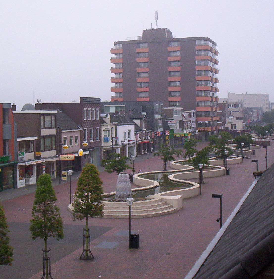 Cascade sculpture/fountain (1995) Cascade by Katin Daan in Hoogeveen/The Netherlands